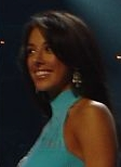 Stephanie Guerrero, 2004 during rehearsals for the Miss USA 2004 pageant.